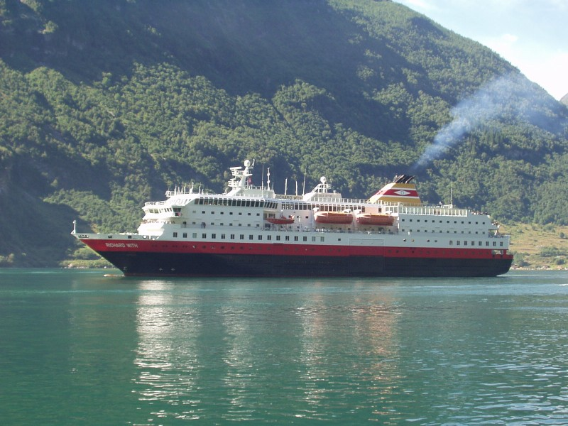 Description: MS Richard With im Geirangerfjord Capture date: 2005-08-20 Photographer: sgm